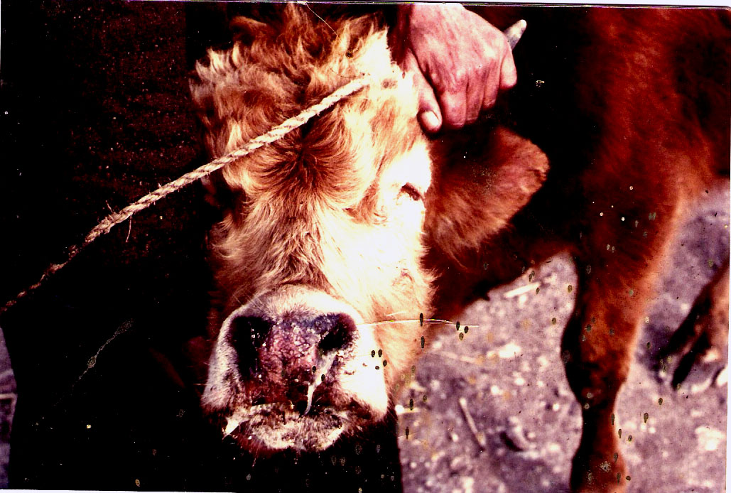 Bovine malignant catarrhal fever: dried muzzle / nasal discharge / photophobia